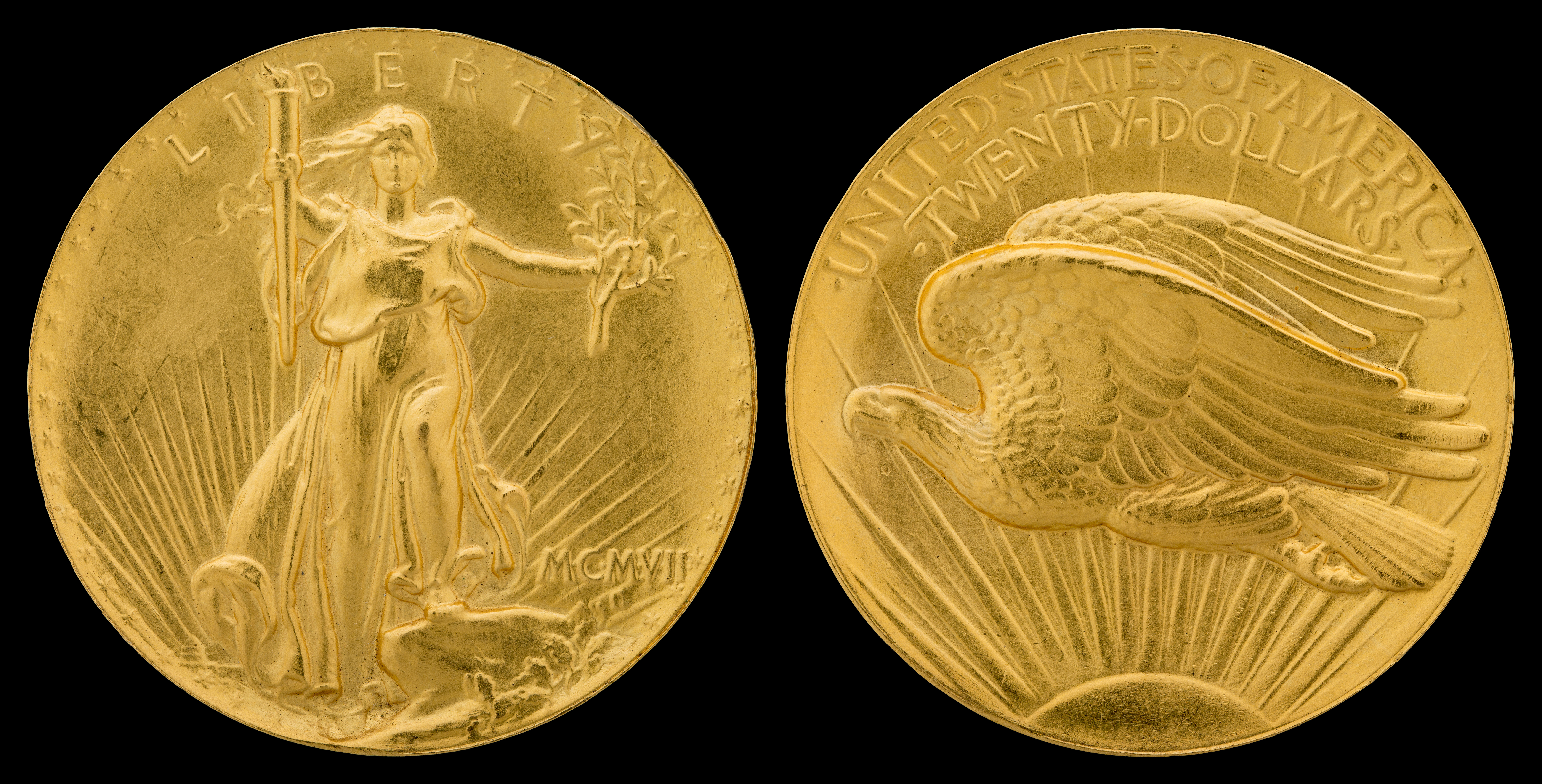 1907 G$20 Saint Gaudens (Roman, ultra high relief, wire edge)Gold (fineness 0.9000), 34mm, 33.436g, designed by Augustus Saint-GaudensJN2015-6770-71